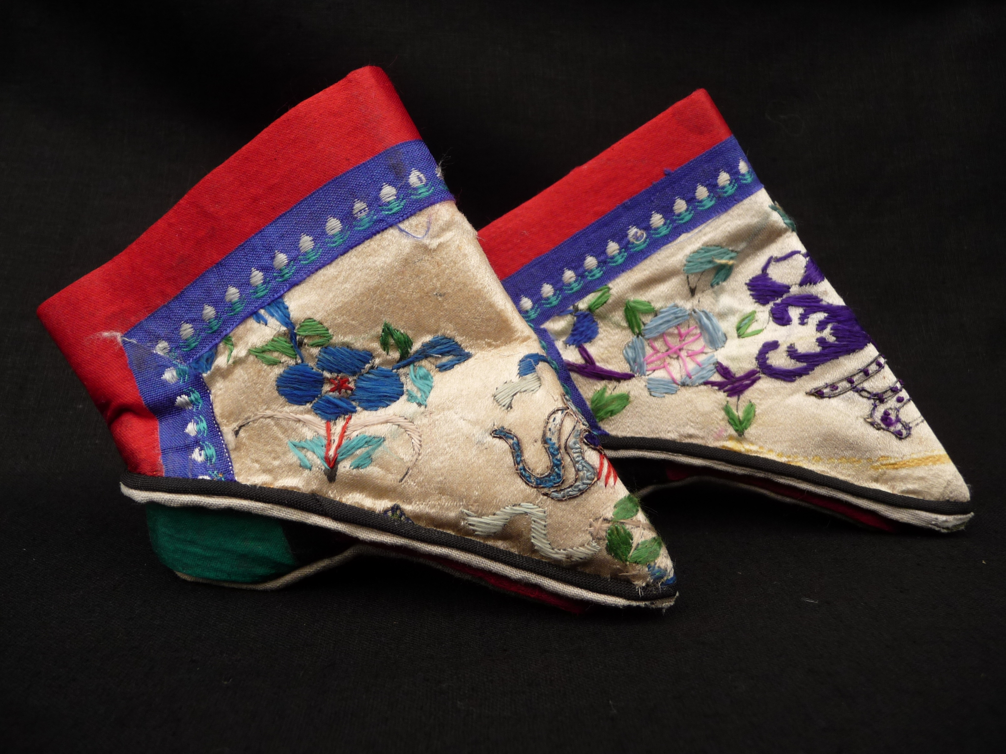 This is a pair of Chinese lady’s shoes for bound feet. They are very small as the ideal length for a bound foot was seven and a half centimetres. Shoes for bound feet were called foot-binding shoes and lotus slippers in many non-Chinese communities. They are referred to by a variety of names in China and Chinese literature. These include gongxie (arched shoes), xiuxie (embroidered slippers), jin lian (gilded lilies) and san cun jin lian (three inch golden lily/lotus). Object description: These are lotus shoes with a triangular sole. They are made of bright red and blue cotton and cream silk. Elaborate designs of dragons and flowers are embroidered on the silk. The blue panel at the top has white and green satin stitching along its length. The heel is covered in green fabric. History: Foot binding was a custom practised in China and occurred during the Song Dynasty ( 960-1279 AD), over a thousand years ago. Small feet were greatly admired in China. To ensure that a young girl’s feet did not grow, her feet were usually bound after she was four years old. It was done with a stout bandage, the bandage being tightened daily after removal. The bound foot never ceased to cause pain while the woman walked. In 1911 this practice was banned by the Chinese government.